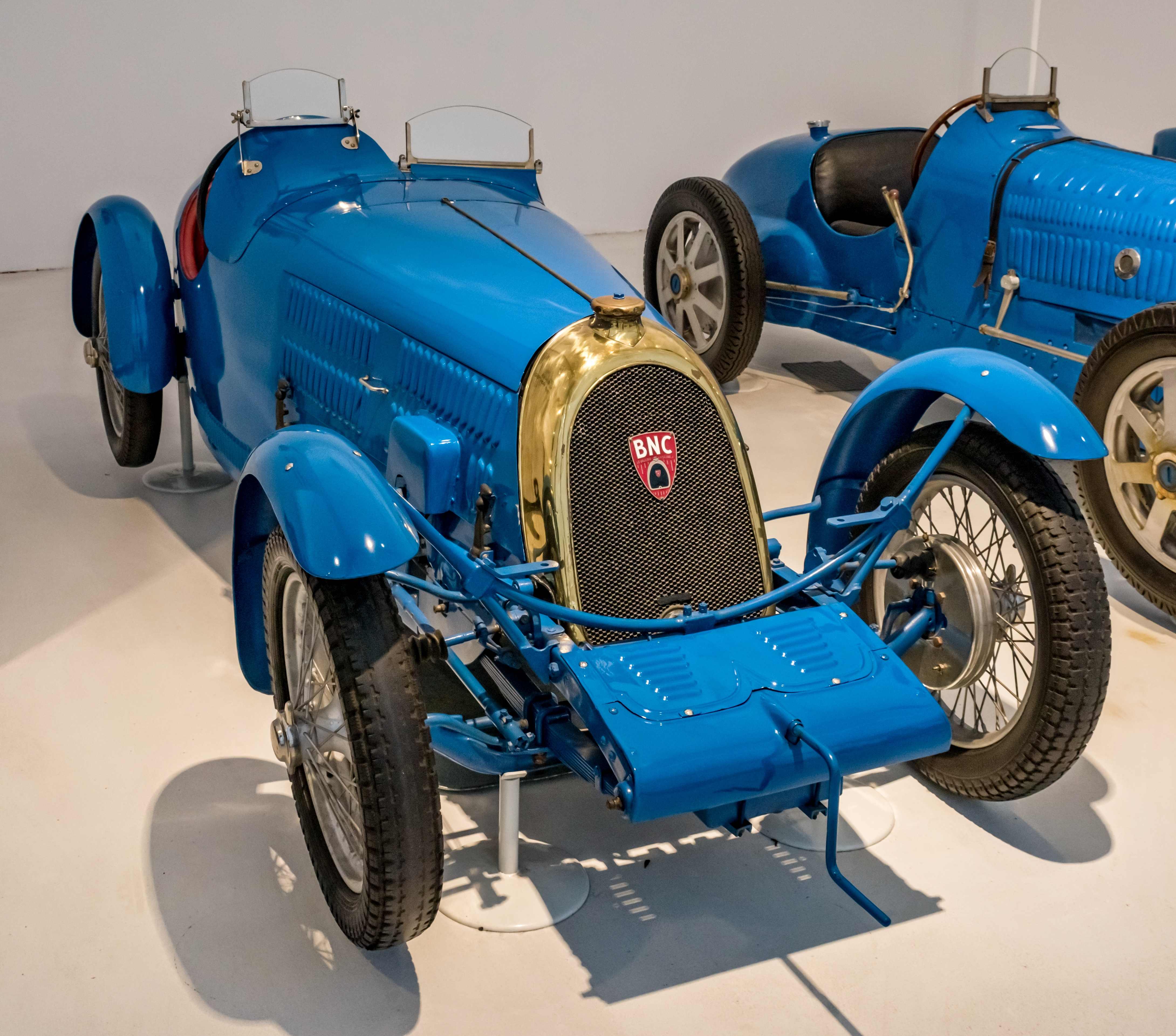 pictures from the Cité de l’Automobile – Musée National – Collection Schlump in Mulhouse, France ptictures from the 10. may 2018